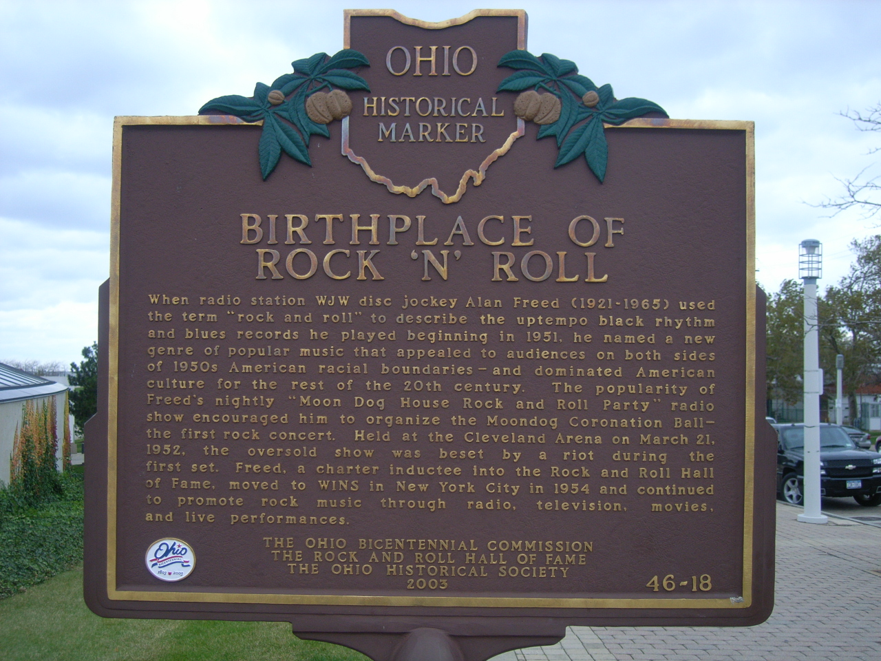 Historical maker near the Rock and Roll Hall of Fame and Museum in Cleveland, Ohio